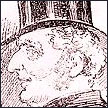 Dr George Bagster Phillips depicted in 1888